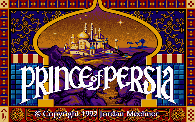 Screenshot from the video game (own work).